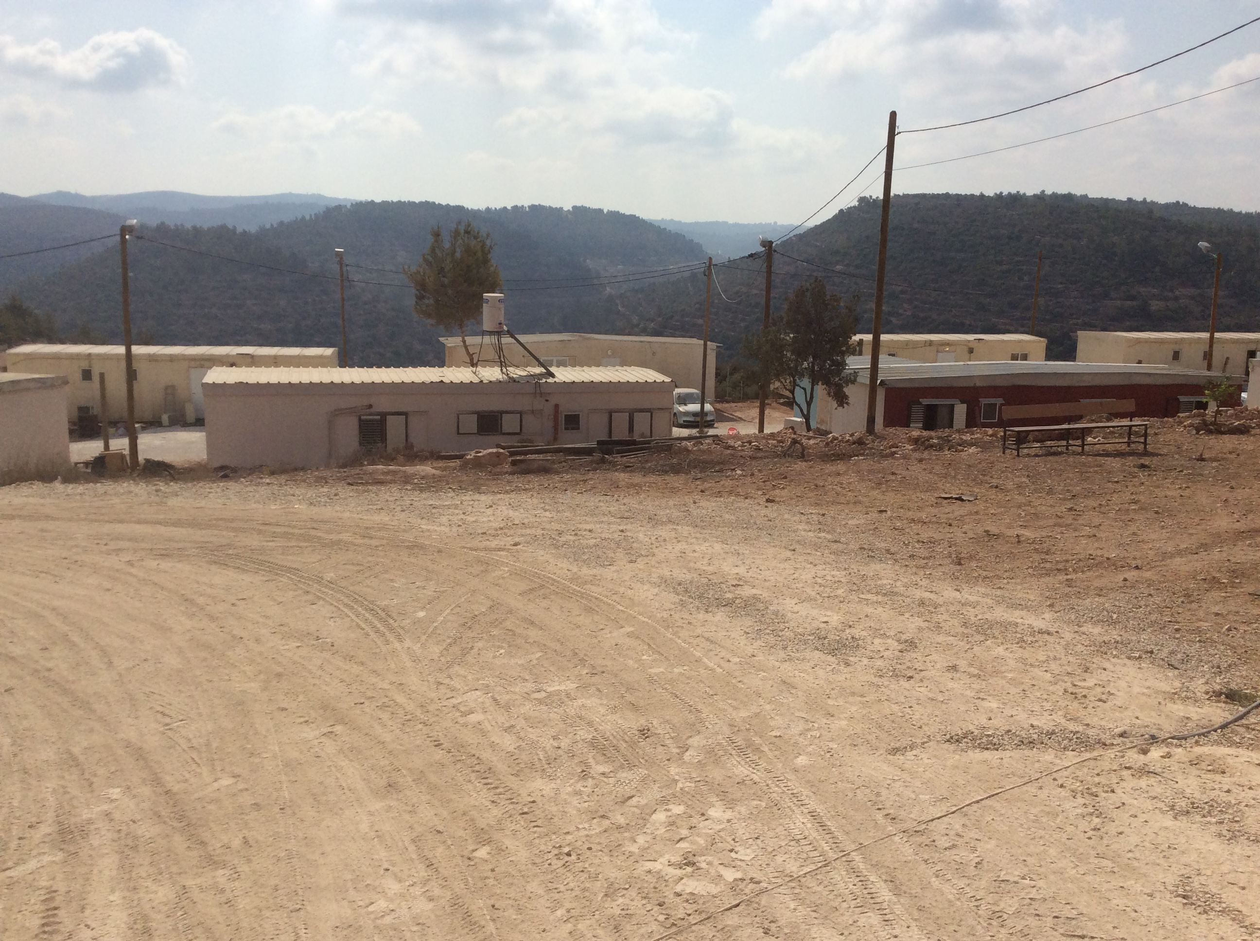 Panoramic view on Neve Achi